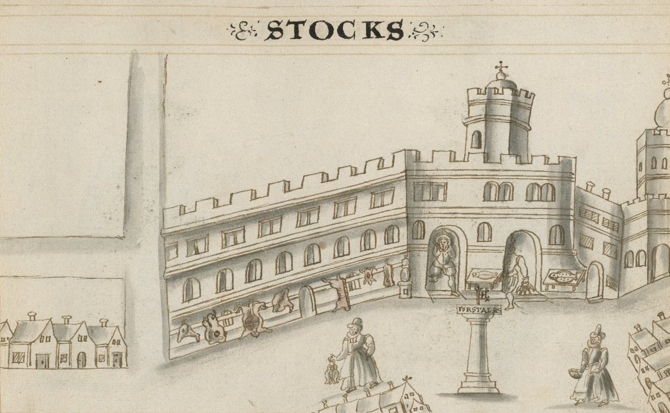 Sketch of Stocks Market, London, from the illustrated manuscript "A caveatt for the citty of London, or, A forewarninge of offences against penall lawes".Folger library reference V.a.318, fol. 14r.